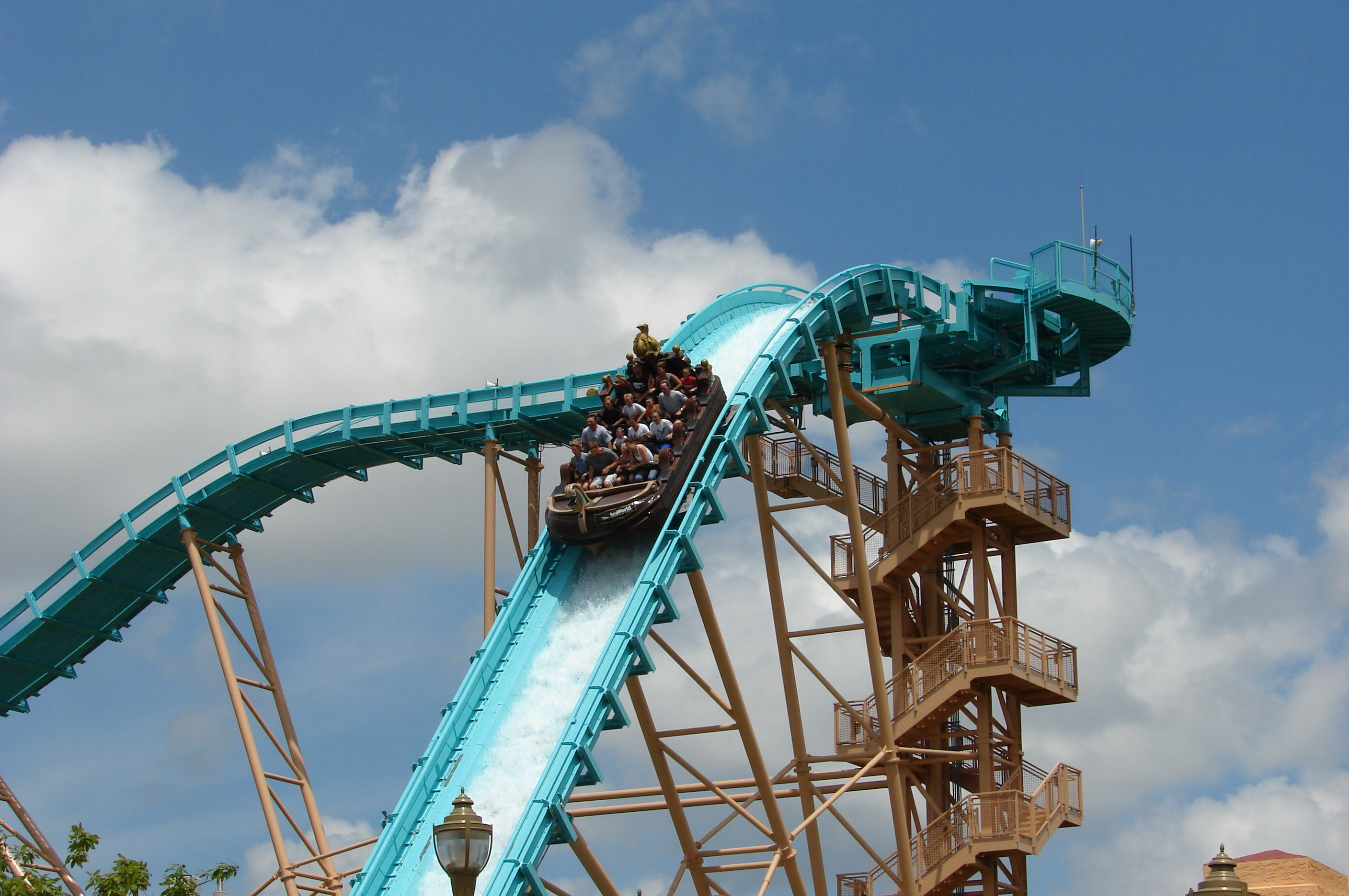 Log flume amusement ride at SeaWorld in San Antonio, Texas.